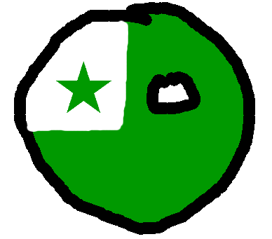 Esperantoball